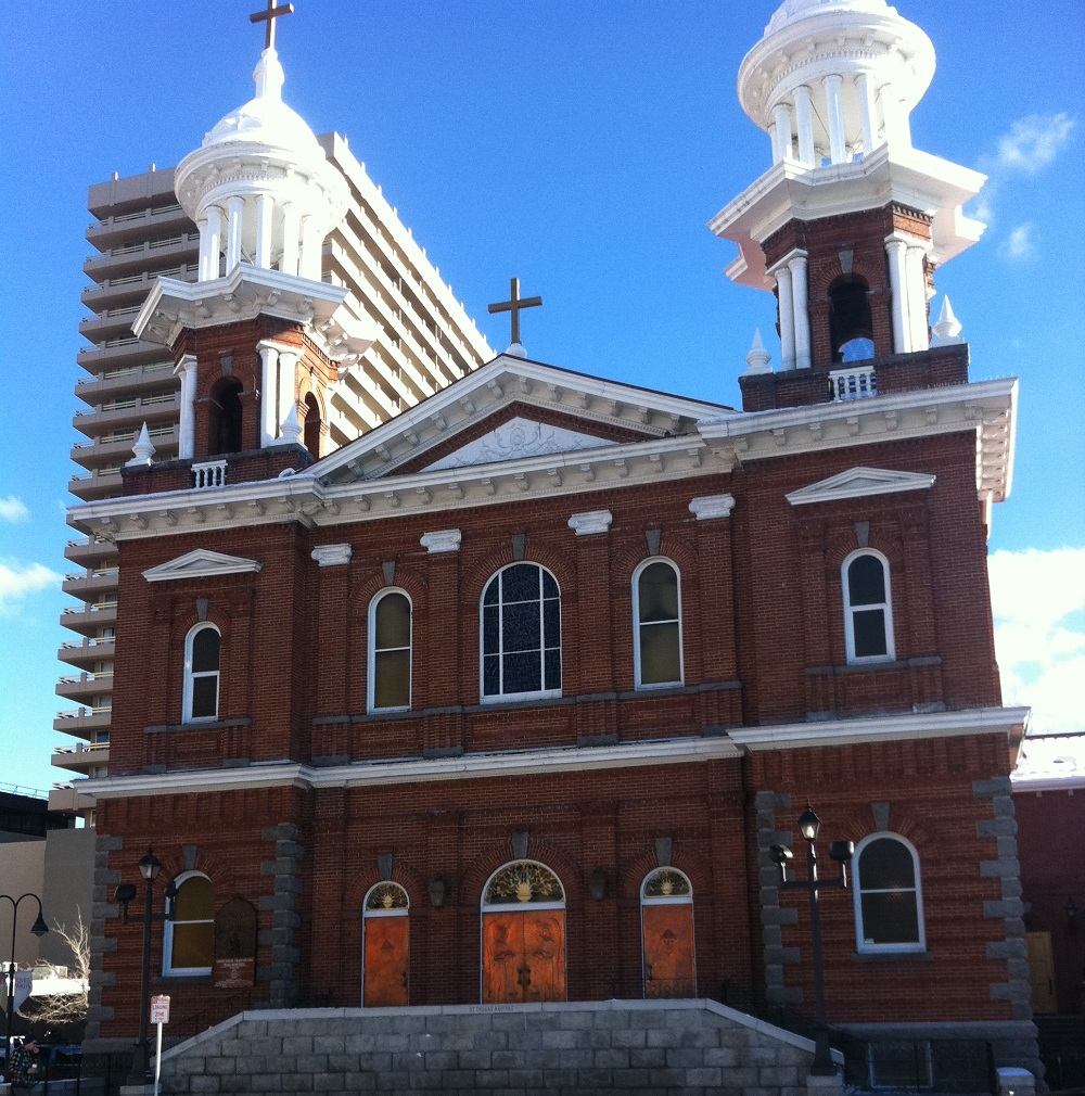 Facade of St Thomas Aquinas Cathedral, in Reno, Nevada.